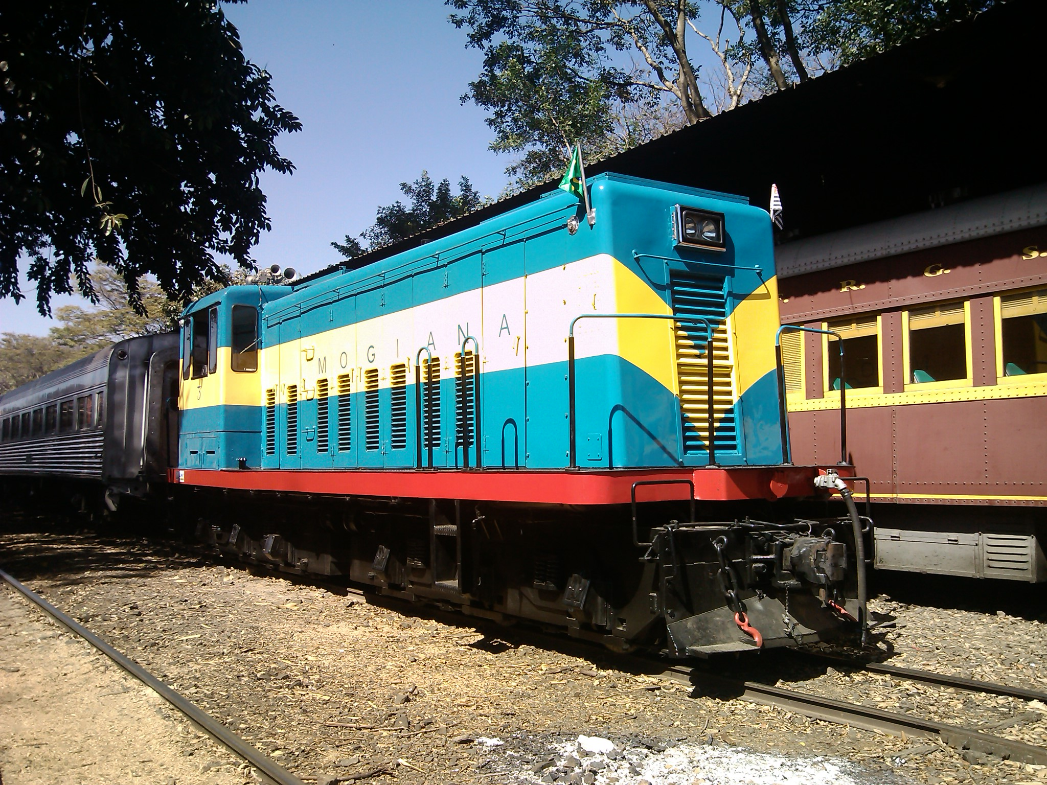 GE 70 ton (64 metric tons) switcher in 1000mm gauge. Photo taken at Anhumas station, Campinas - São Paulo state - Brazil